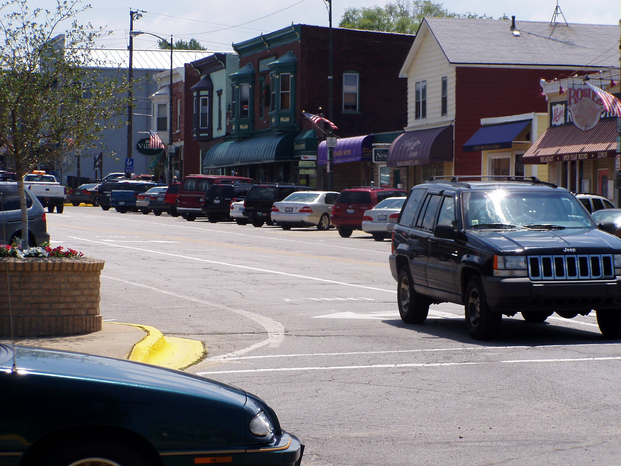 N Whittaker Street (Main) in New Buffalo, Michigan